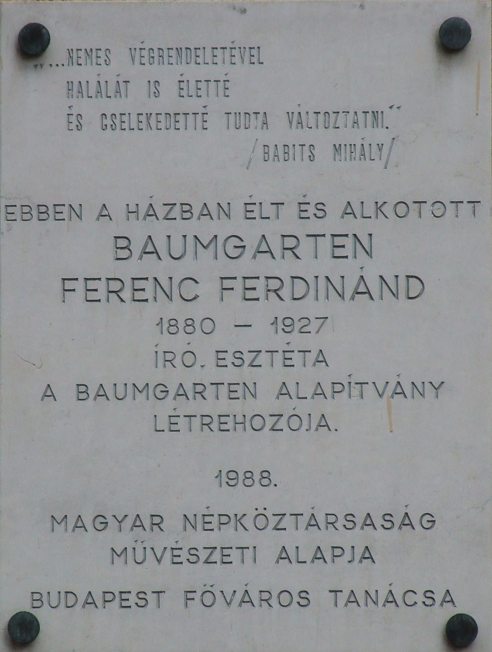 Commemorative plaque of Ferdinánd Baumgarten Ferenc, Budapest District V, Sas Street No 1